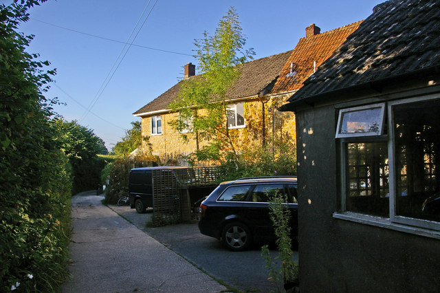 Oxbridge A small hamlet far removed from the more usual use of the name as reference to Oxford and Cambridge Universities!